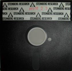 An image of the first product created by Steinberg, Pro 12 on it's original floppy disk. Image taken by me. Nixdorf 20:26, 21 Jan 2004 (UTC)